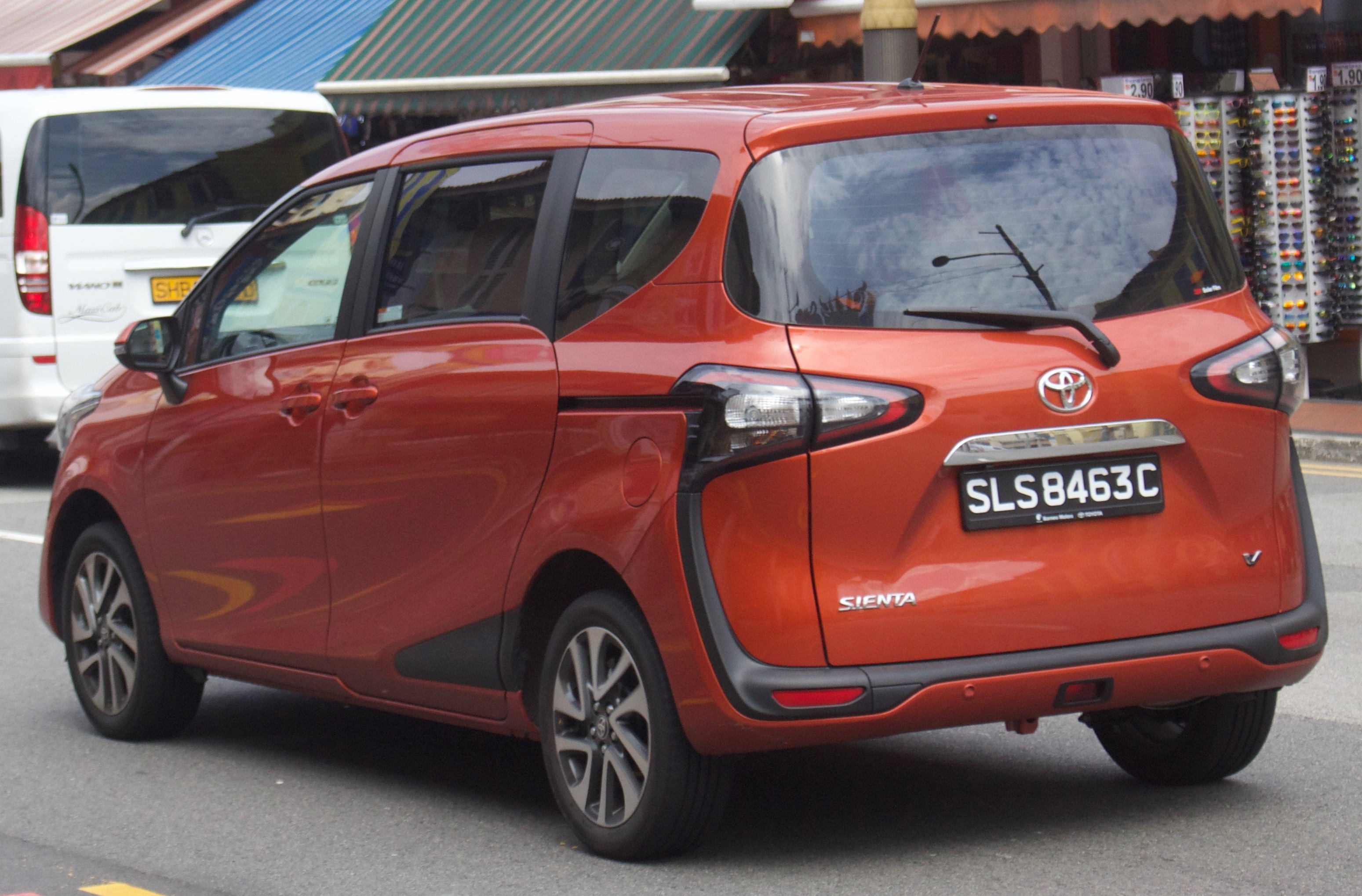 2017 Toyota Sienta (XP150) 1.5V van. Photographed in Singapore.